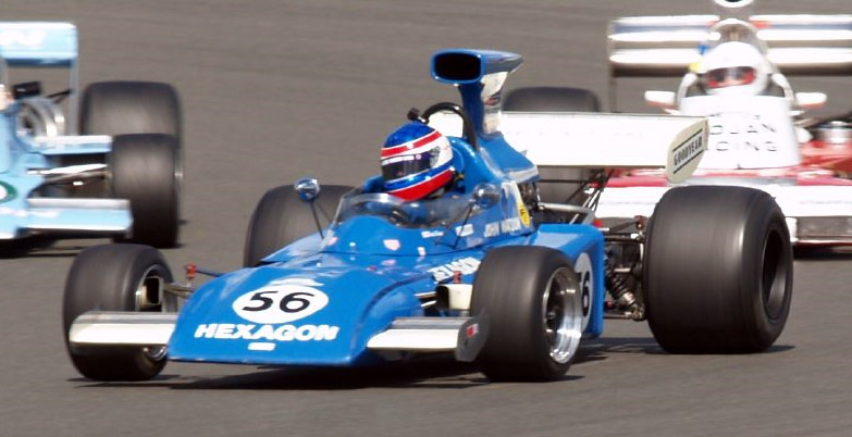 The March 721 Formula One car, during the International Trophy race at the Silverstone Classic race meeting, July 2007.